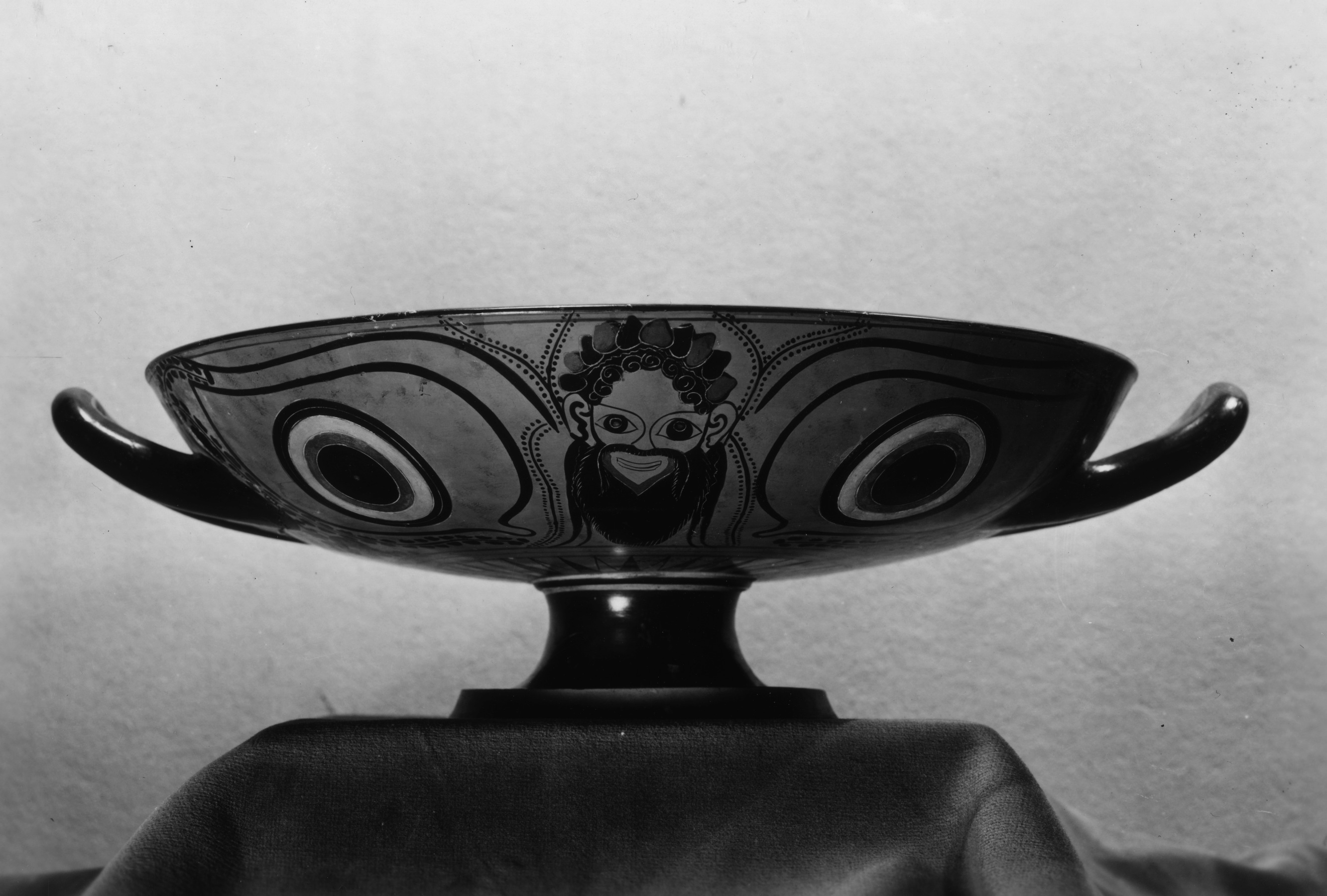 Ancient attic-greek black-figure Eye-cup (Kylix) with Mask of Dionysus and Gorgon's Head Medallion, name vase of the Group of Walters 48.42, The Walters Art Museum (48.42), ca. 530/20 BCE; H: 3 13/16 × W with handles: 14 7/8 × Diam: 12 3/16 in. (9.7 × 37.8 × 30.9 cm).